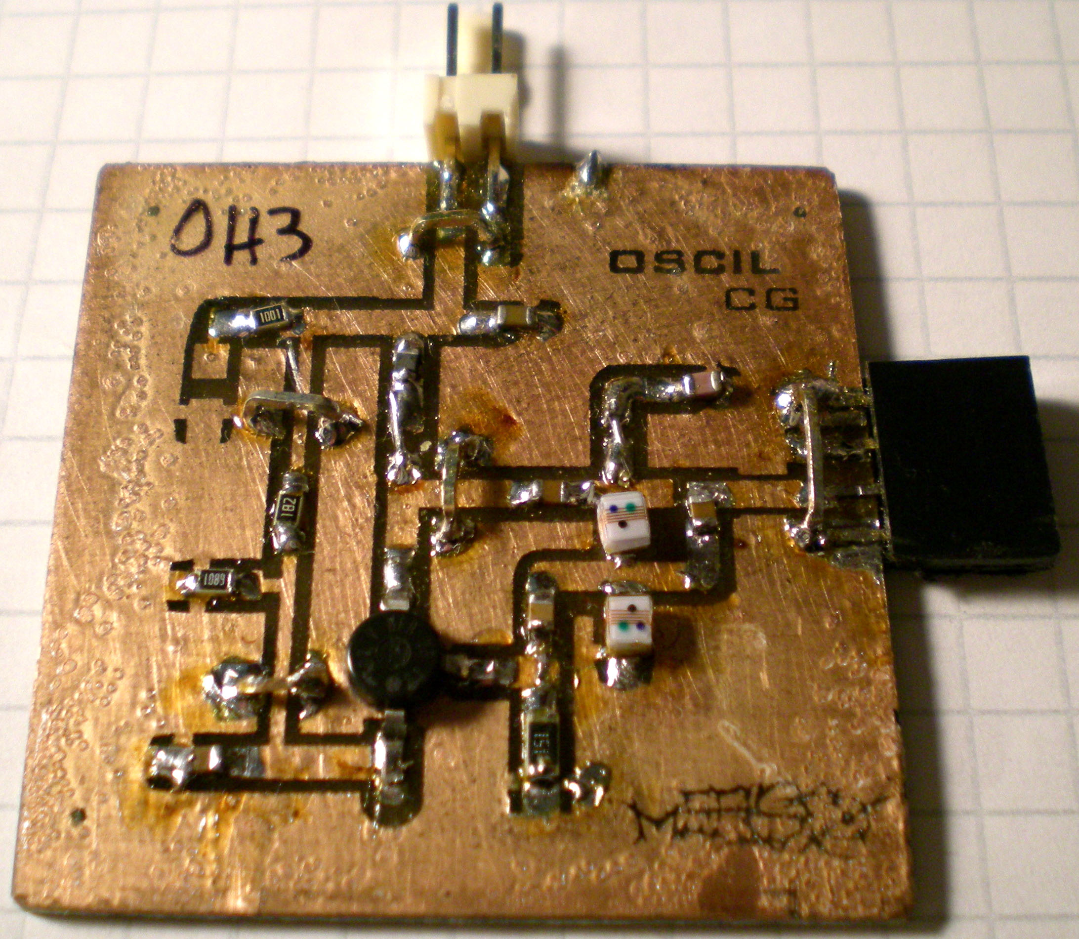 Hartley oscillator in SMD technique, made using BFR96 transistor; inductor divided into two coils is clearly visible.